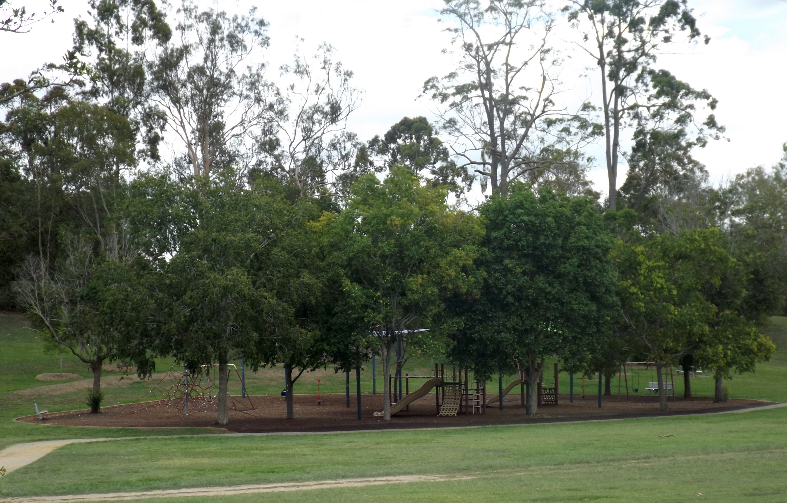 Photo of playground at Sherwood Arboretum in Sherwood, Brisbane, Queensland, Australia.